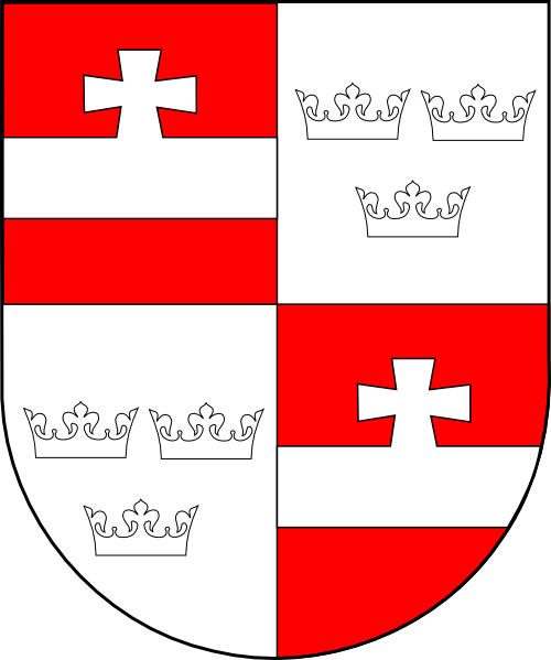 Coat of arms (shield only) of Johann Heigerlin-Faber (Johann Fabri), bishop of Vienna (1530 - 1541). Based on his epitaph.